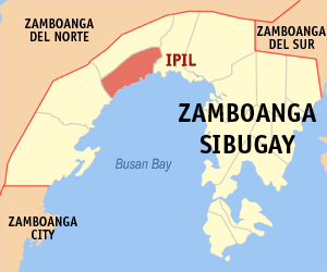 Map of the Zamboanga Sibugay showing the location of Ipil